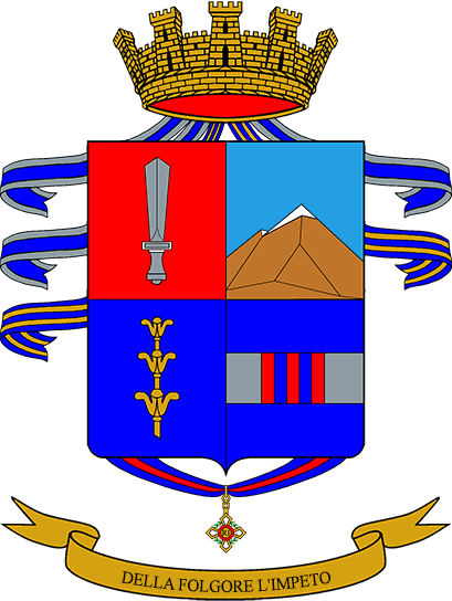 Coat of Arms of the 9° Paratrooper (Paracadutisti) Regiment; Italian Army.